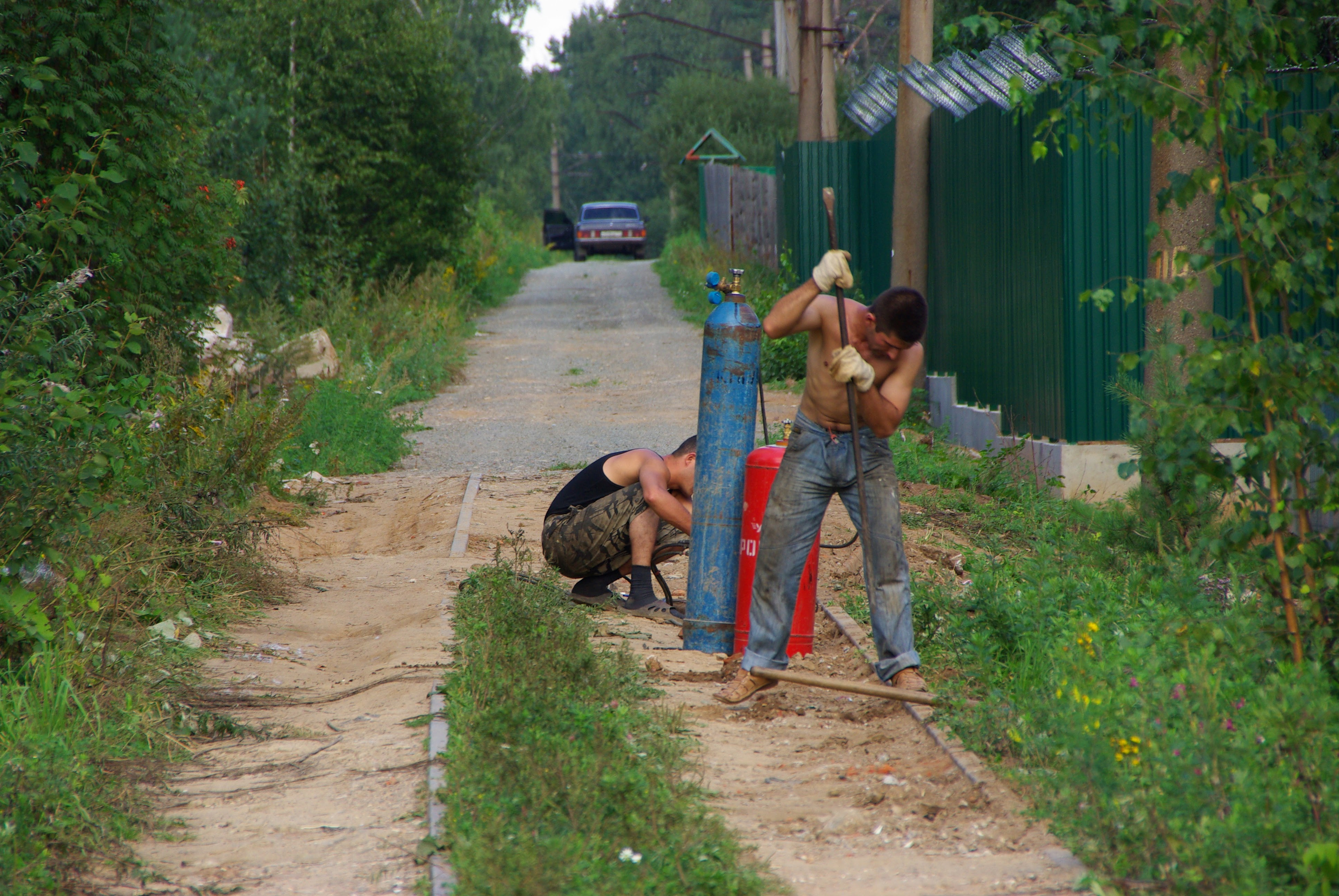 Nakhabino - Pavlovskaya sloboda railway line